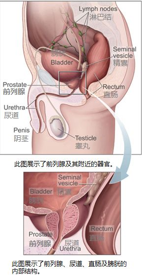 Prostate and bladder, sagittal section.